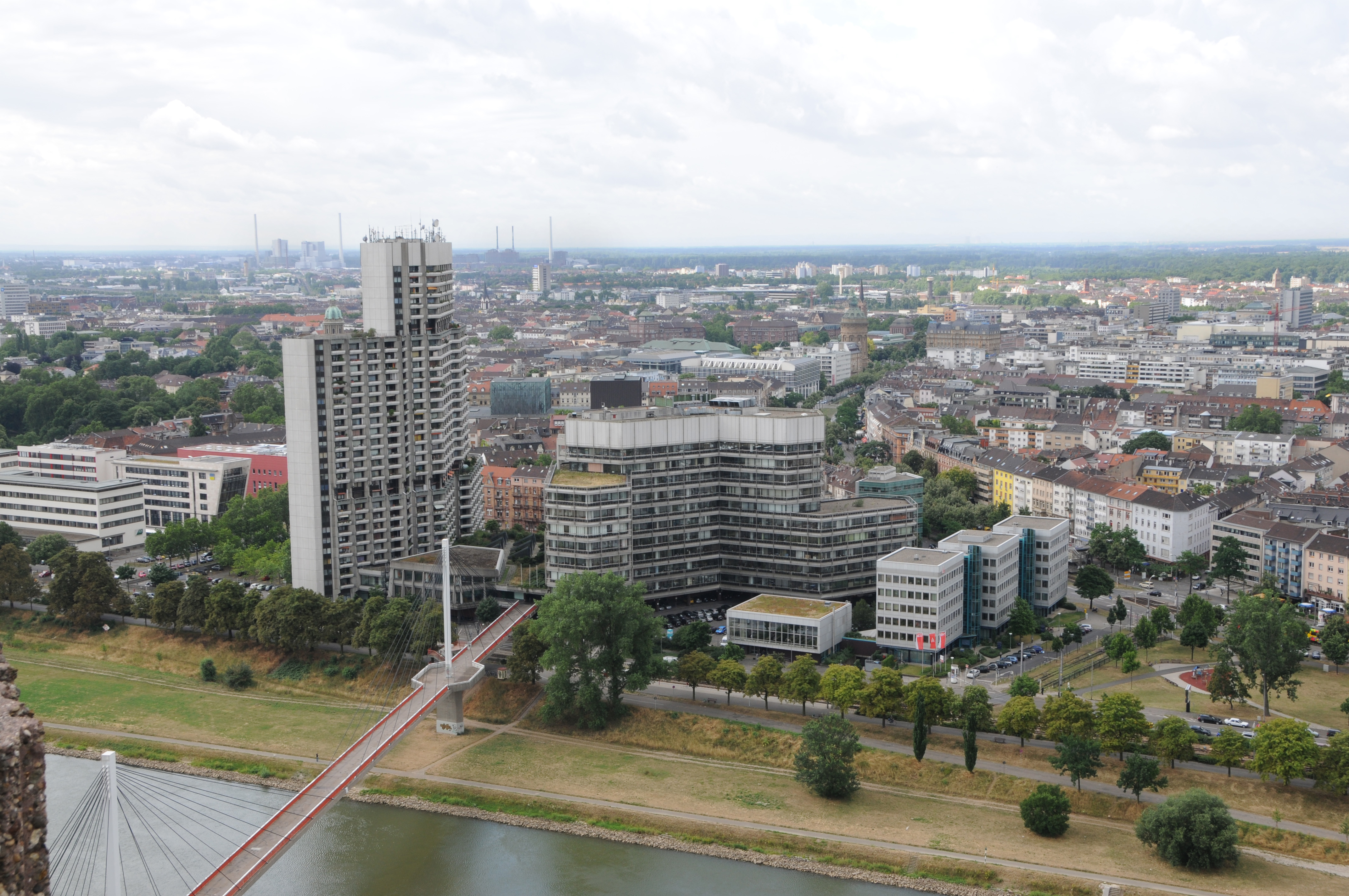 Collini-Center, Mannheim (Germany), view from North over the river Neckar